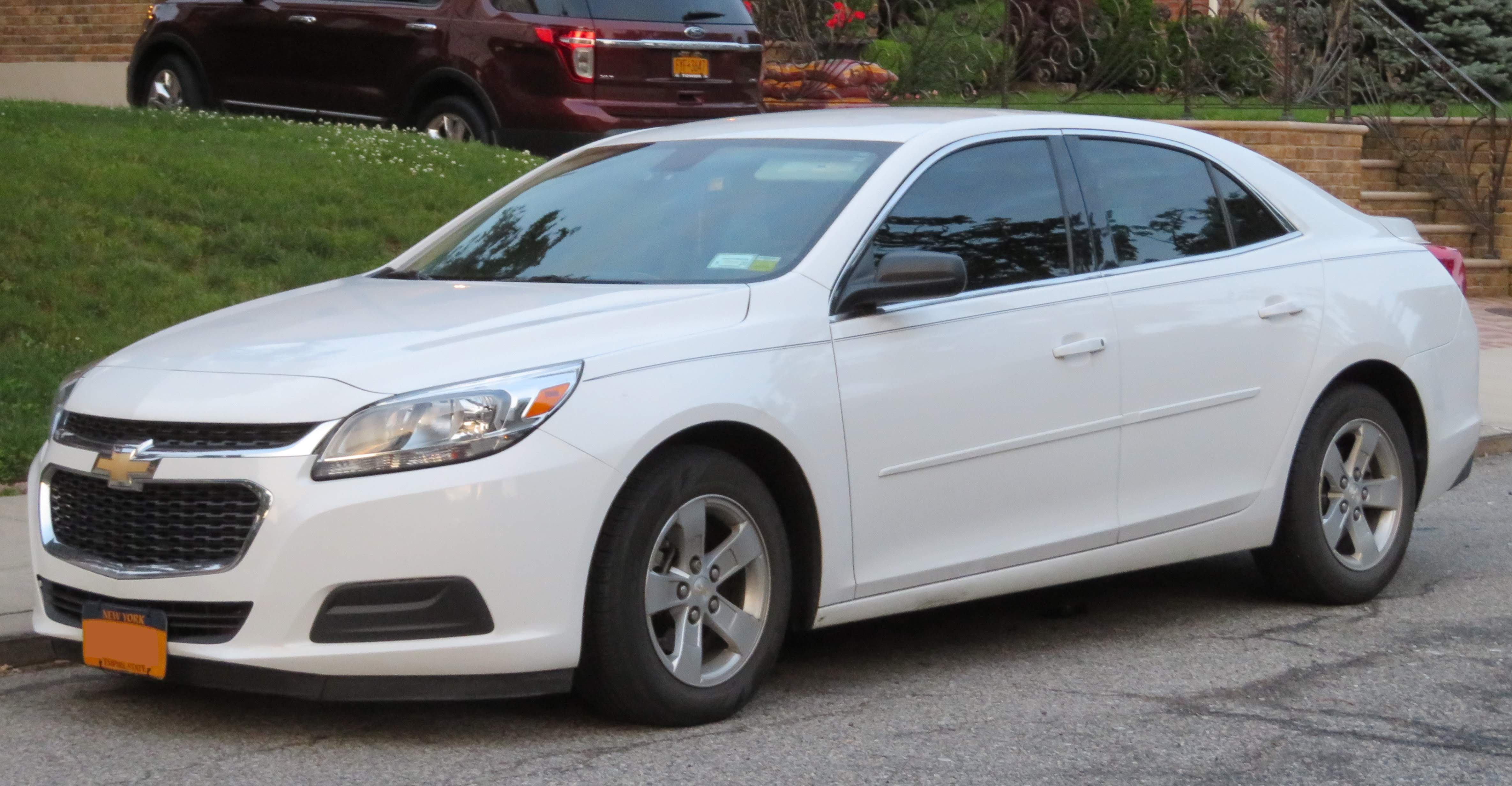 Photographed in Queens, New York